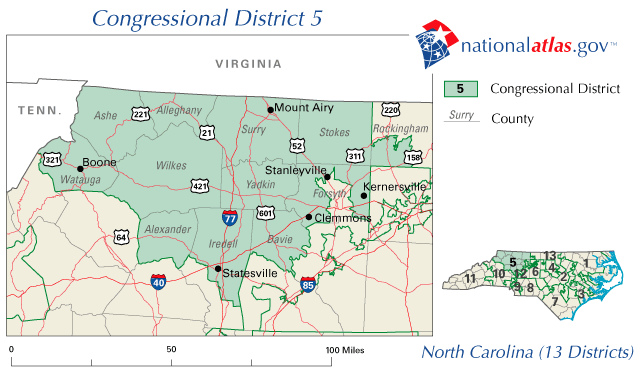 North Carolina's 5th congressional district prior to 2012 redistricting